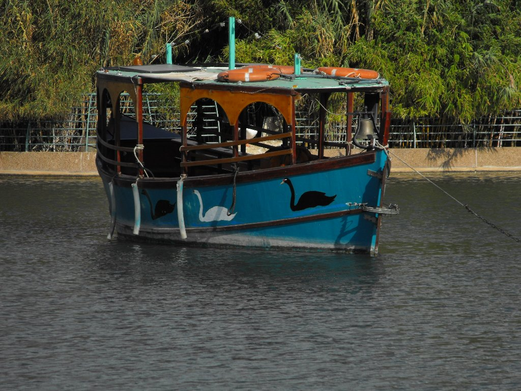 Raanana Park, Tourism in Israel